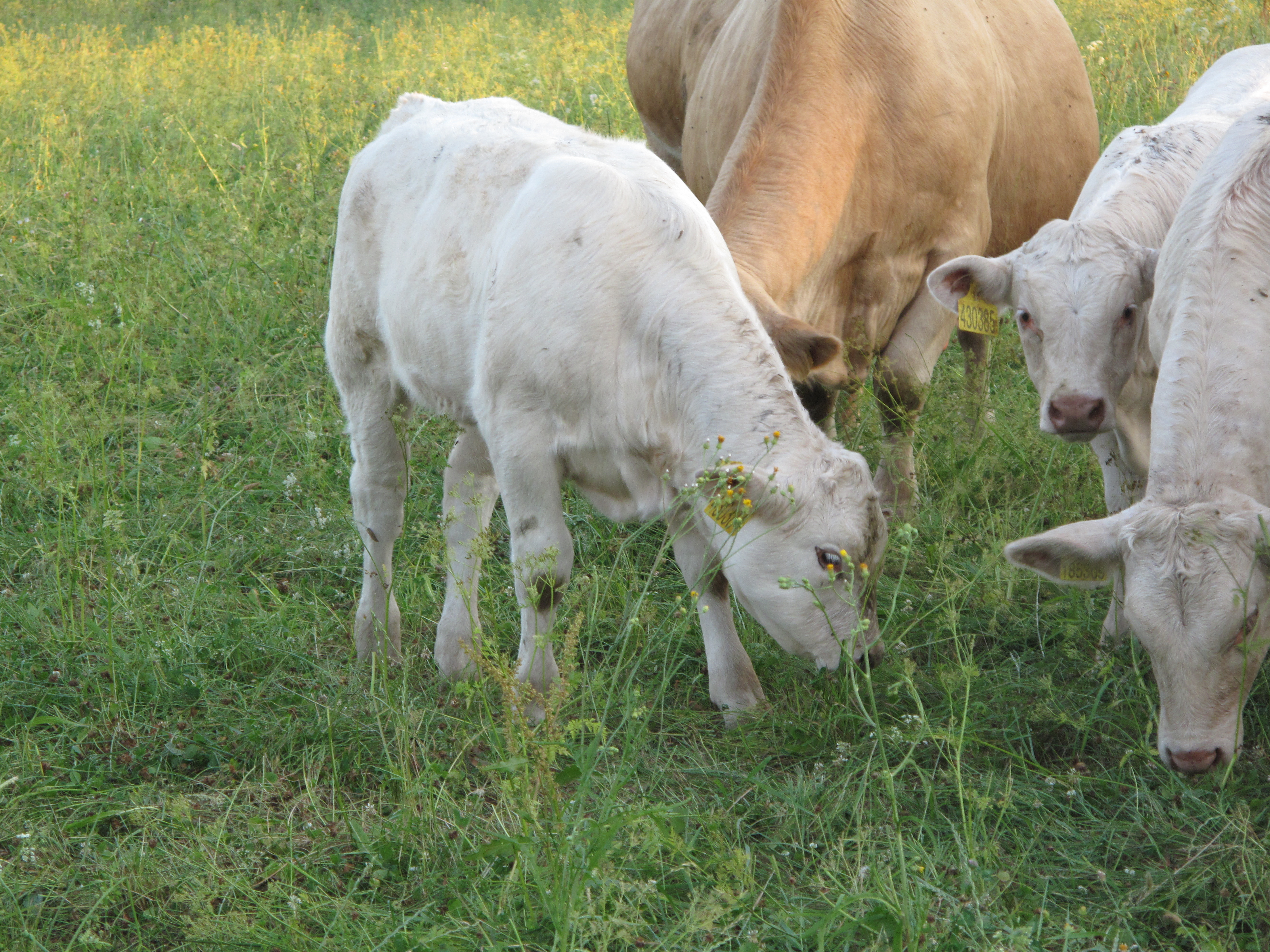 Cattle in the Vysočina Region, Czech Republic